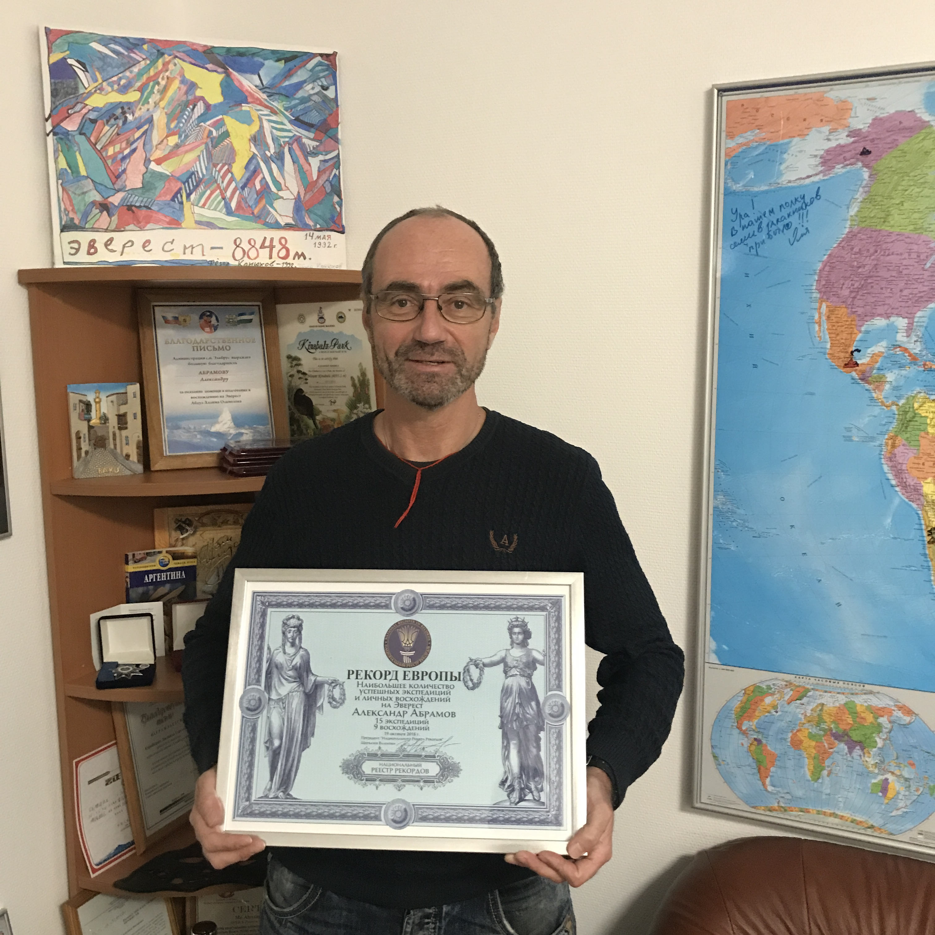 Certificate of Europe record the largest number of successful expeditions and personal ascents on Everest Alexander Abramov 15 expeditions and 9 ascents